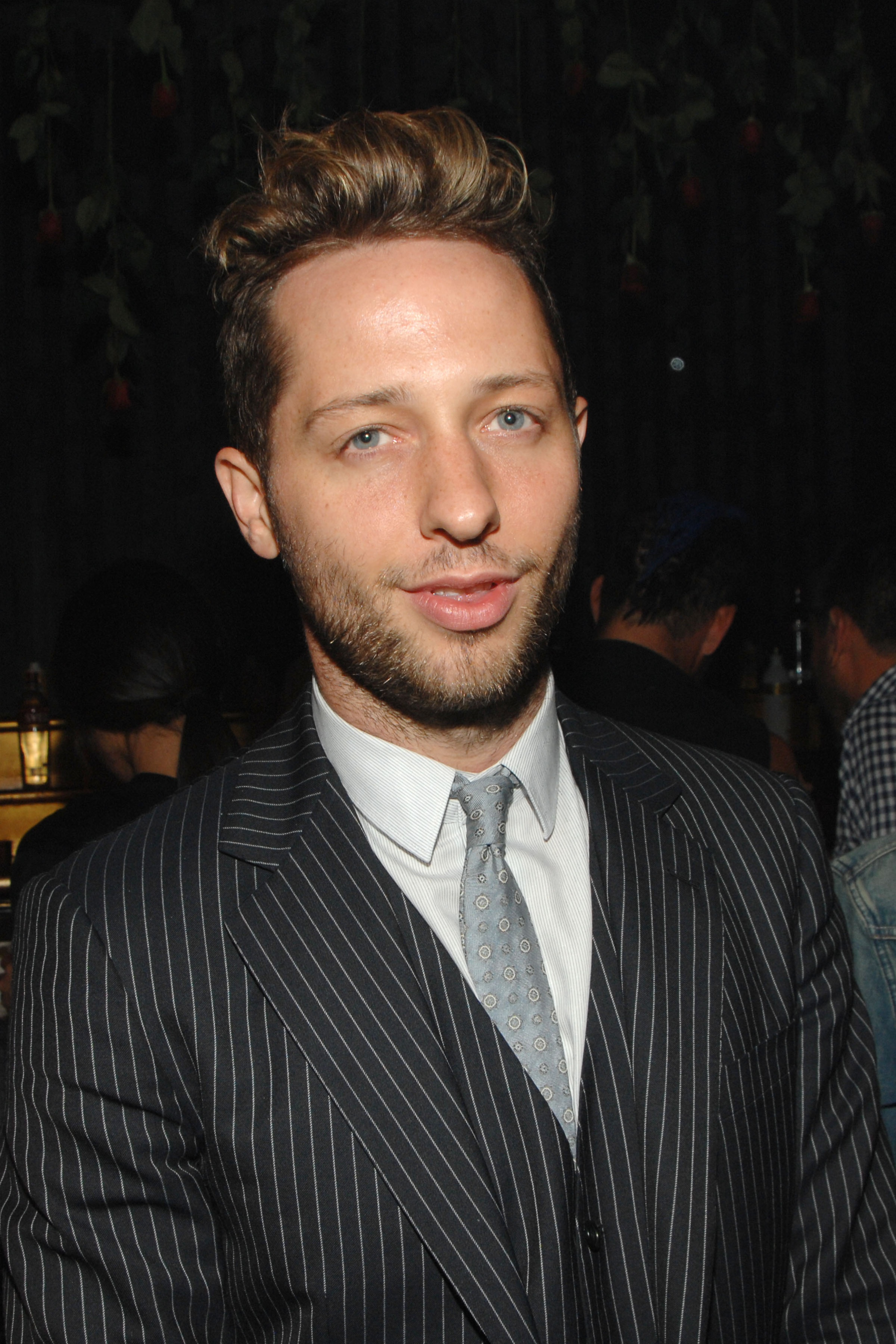 Portrait of writer Derek Blasberg